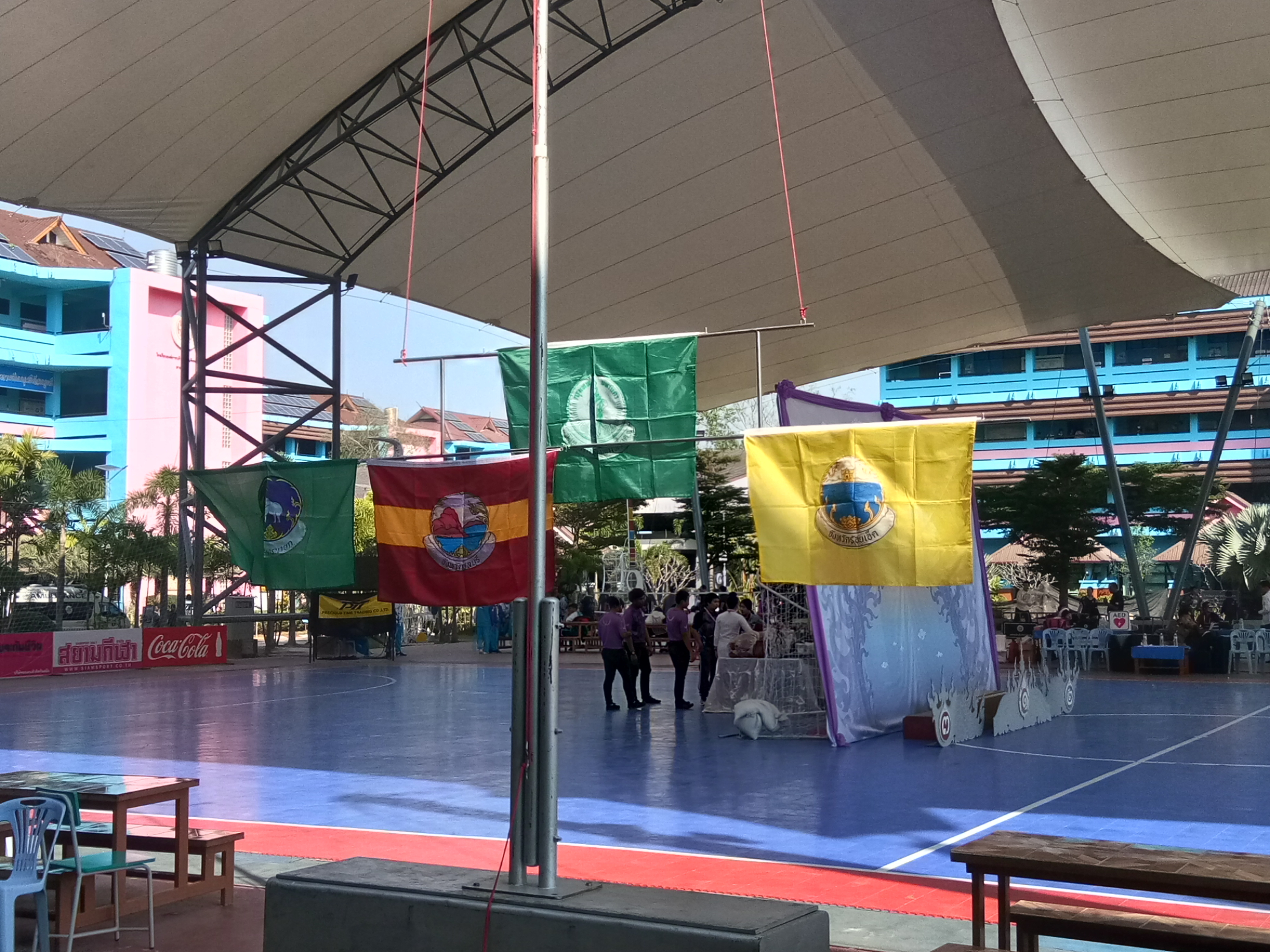 Provincial flags: Flag of Nakhon Nayok Province, Flag of Chonburi Province, Flag of Bangkok, and Flag of Roi Et Province